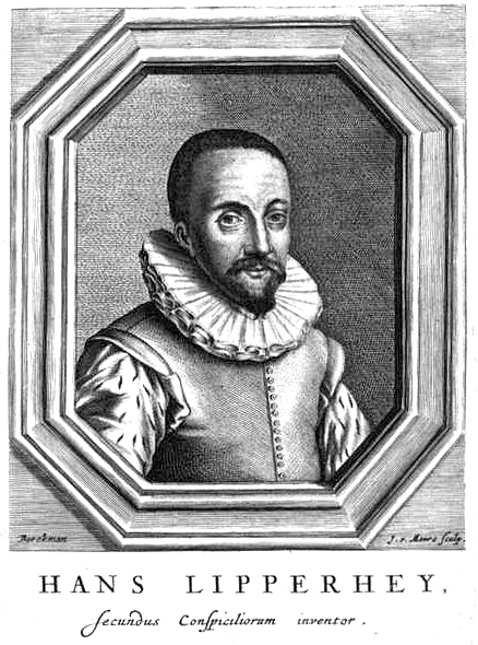 Portrait of Hans Lipperhey